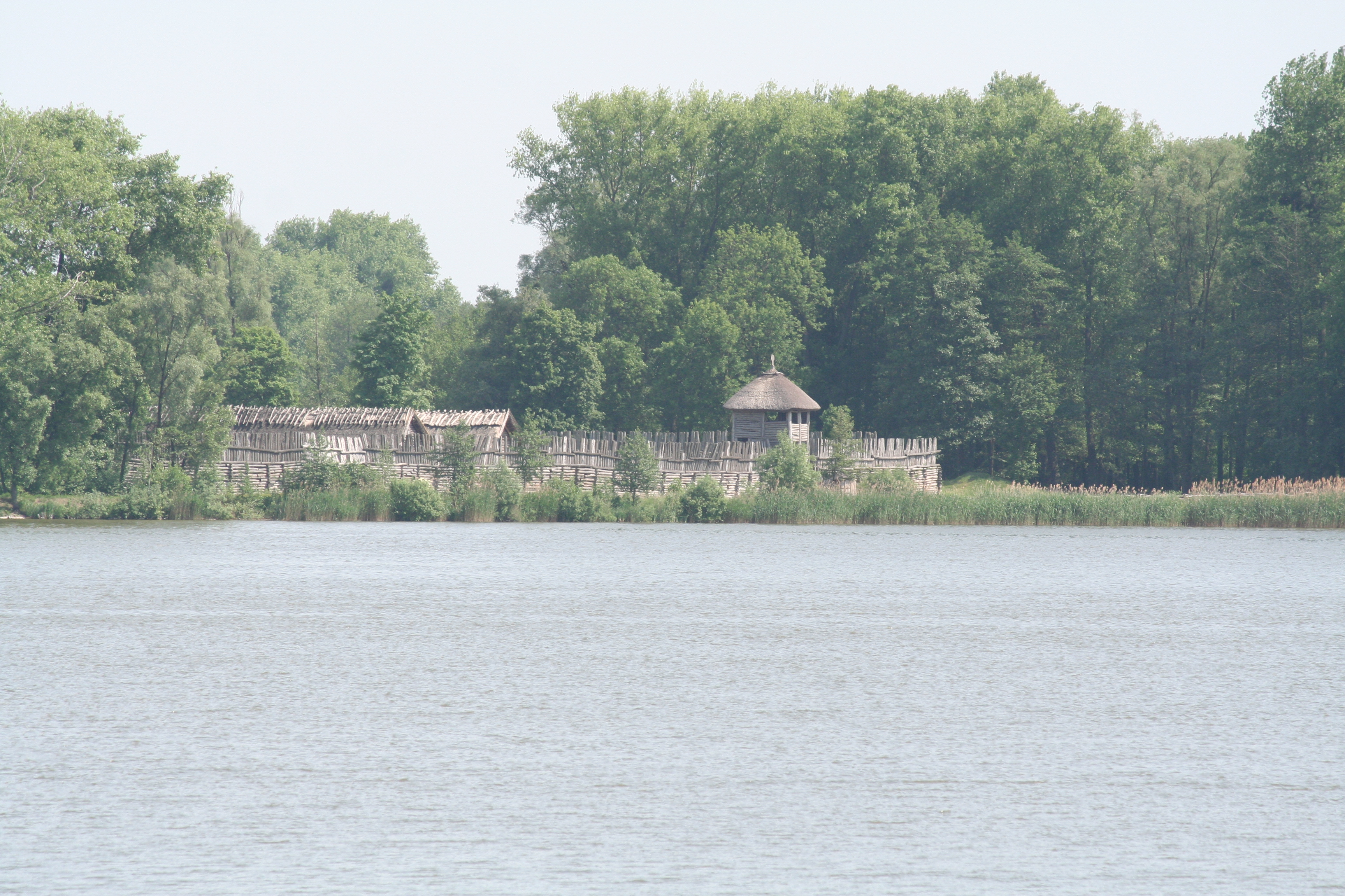 Archaeological open air museum Biskupin